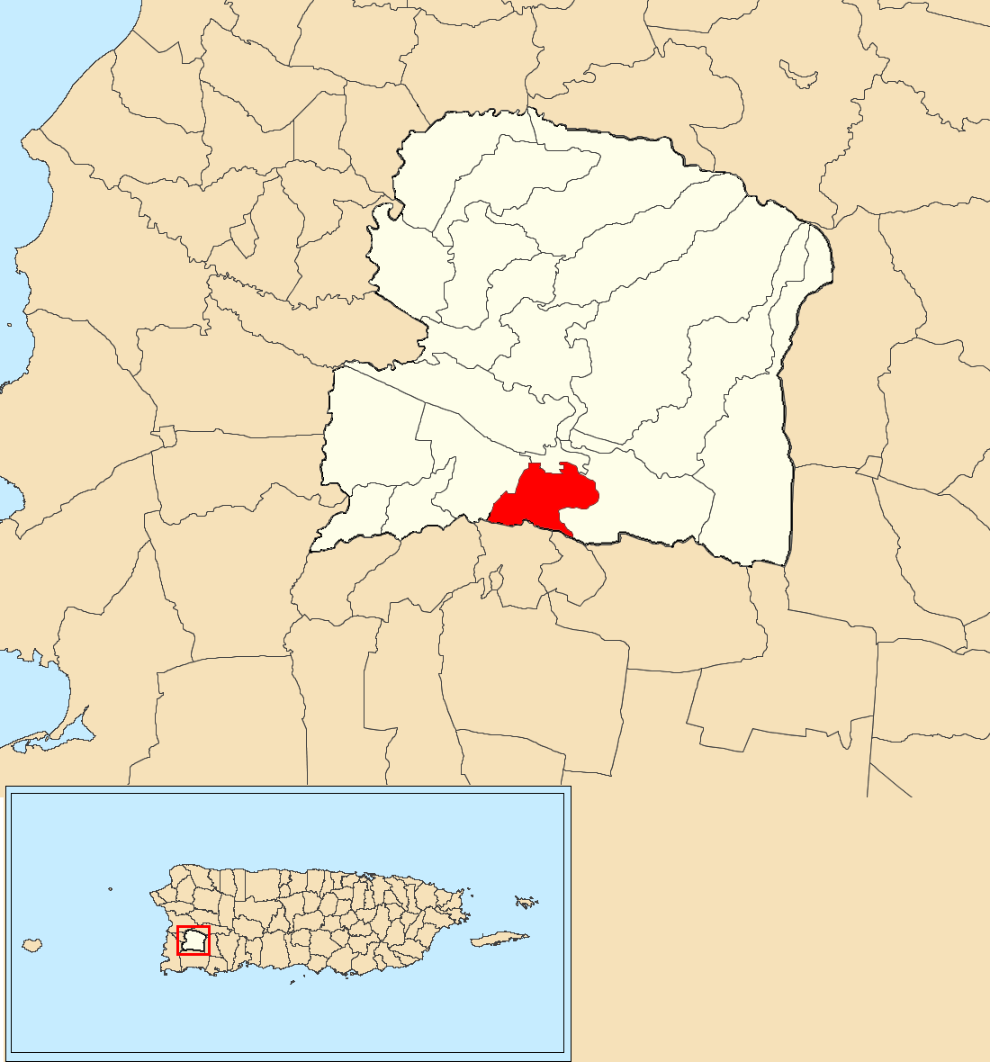 Ancones, San Germán, Puerto Rico locator map